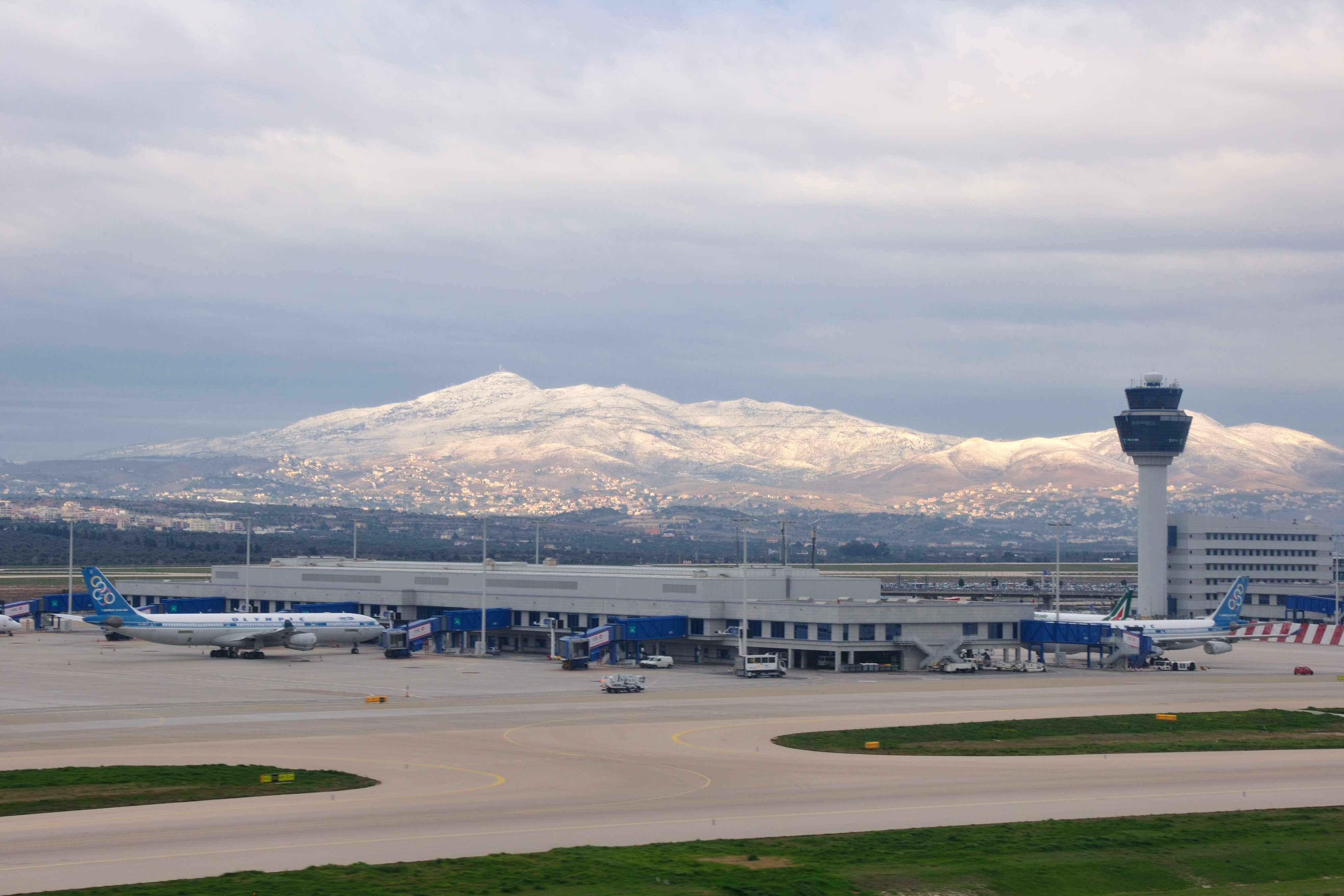 Greece, landing at Athens International Airport on a chilly February day